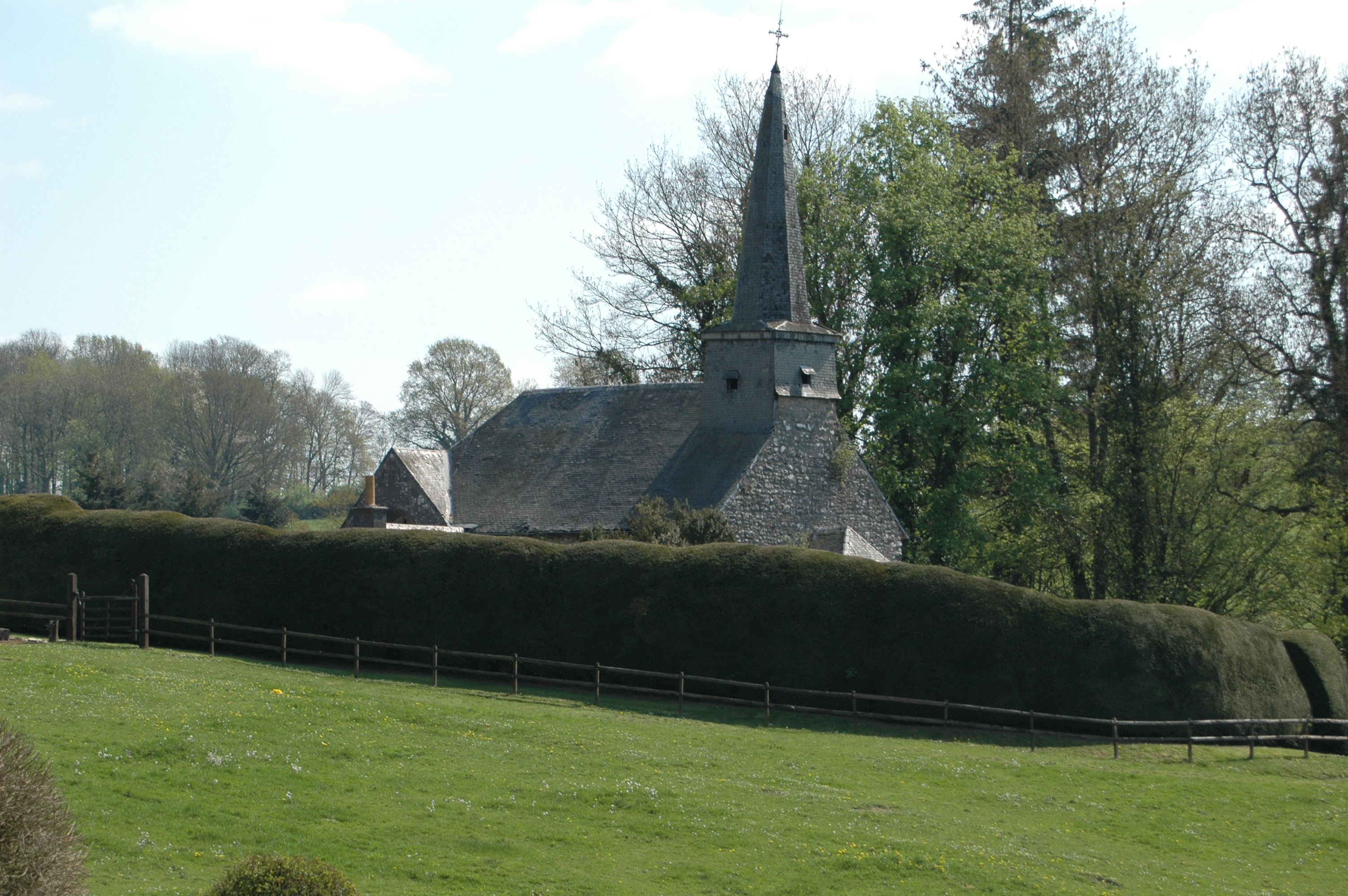 La chapelle de Saint Fontaine, avec la haie qui entoure celle-ci.